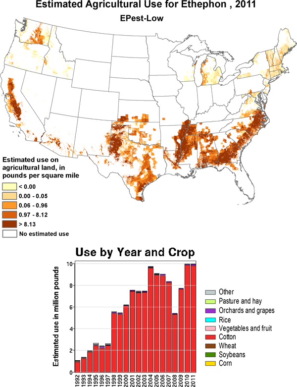 Ethephon map of use, USA, 2011 (estimated)